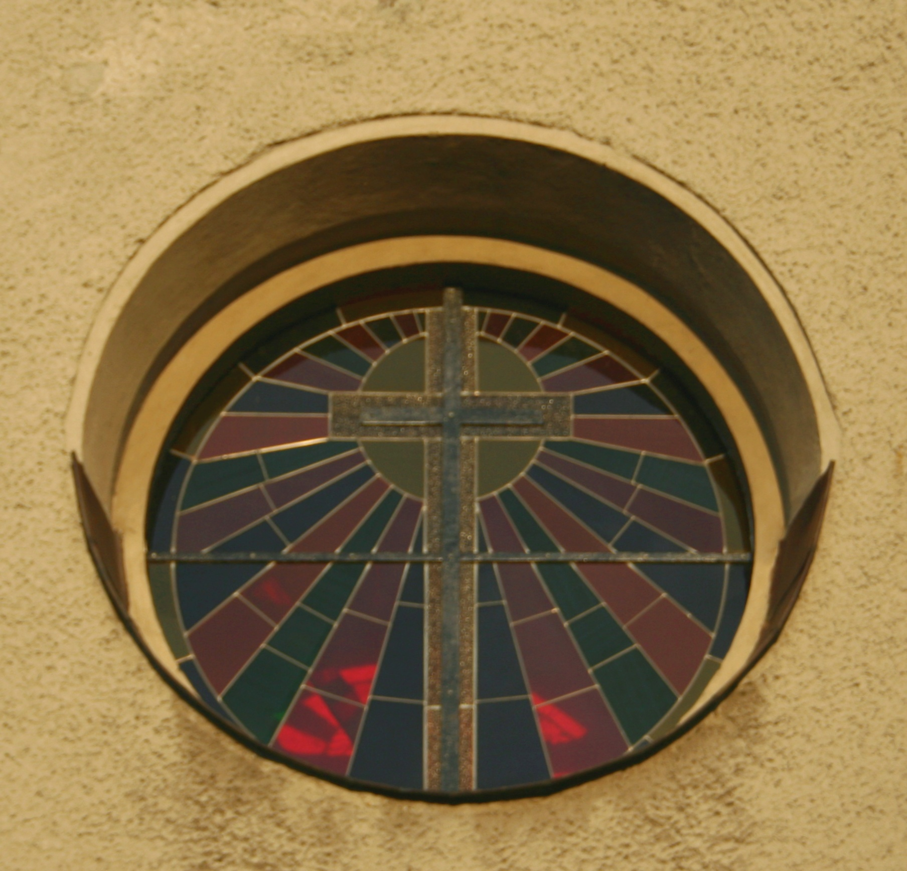 Rose window of St. Martin's church in Paczyna (Poland)